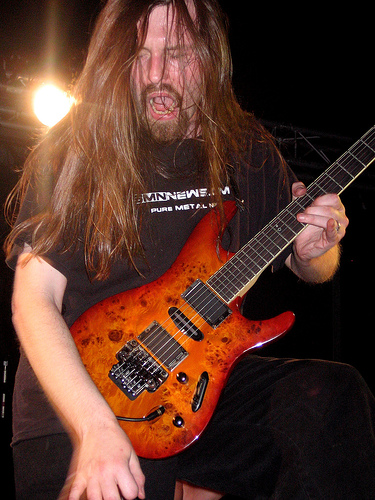 Oli Herbert of All That Remains - I took this photo - it is mine - I allow it to be on Wikipedia